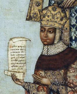 Icon depicting The Cross of Kiy, a replica of the True Cross with holy relics commissioned by Nikon, Orthodox patriarch of Moscow, in 1656. On the left are the images of Saint Emperor Constantine the Great, Tsar Alexey Mikhaylovich and Patriarch Nikon. To the right: Saint Empress Helena and Tsarina Maria Ilyinichna.